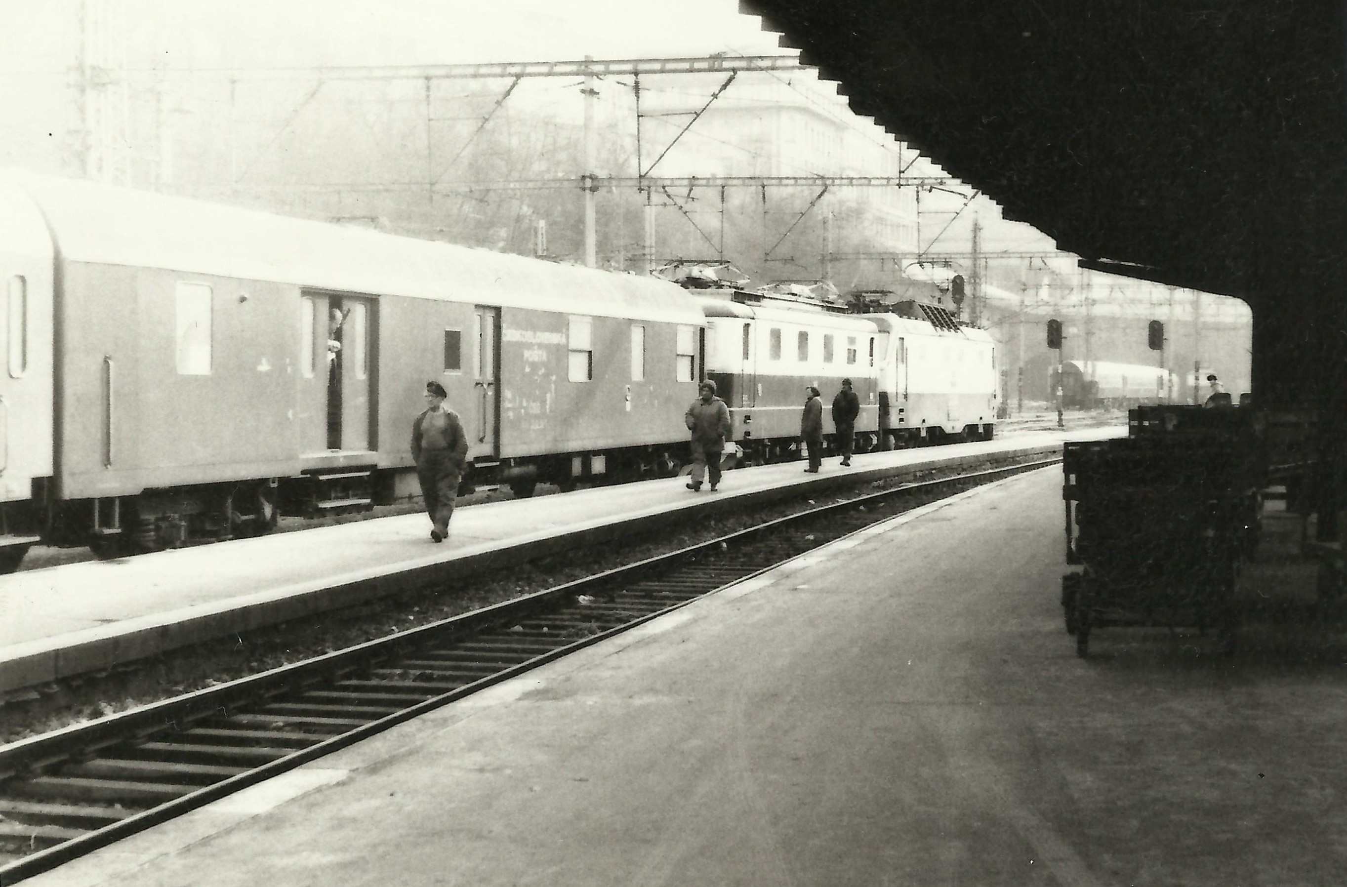 Czechoslovak Post, Praha hl. n. (Czechoslovakia).